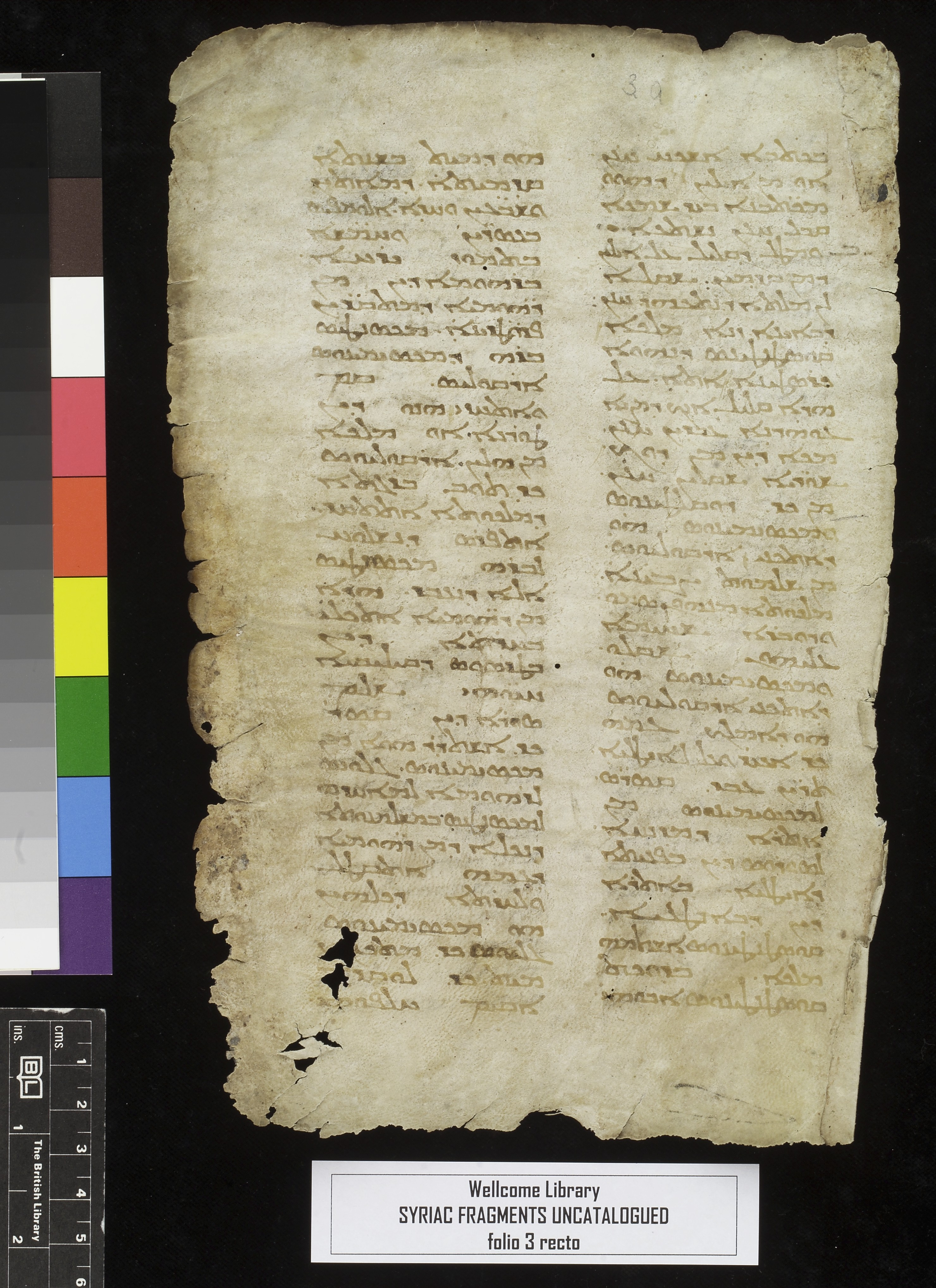 Page from Socrates Scholasticus - The Ecclesiastical History. Begins with the ascension of the Byzantine Emperor Constantine in 306 AD and ends with the reign of Theododsius the Younger [408 - 405 AD] Asian Collection Keywords: Socrates Scholasticus